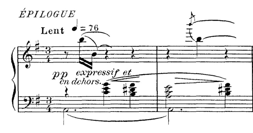 Valse No. 8